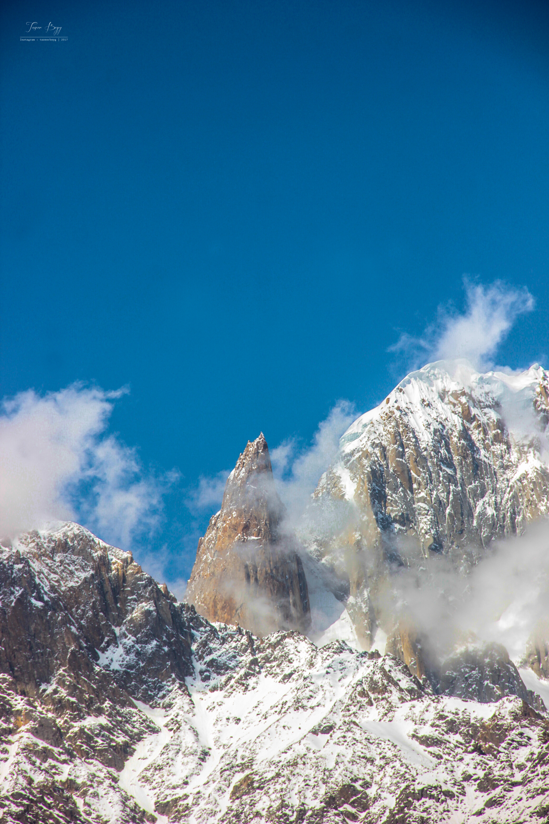 Lady Finger Peak Hunza Valley - Pakistan